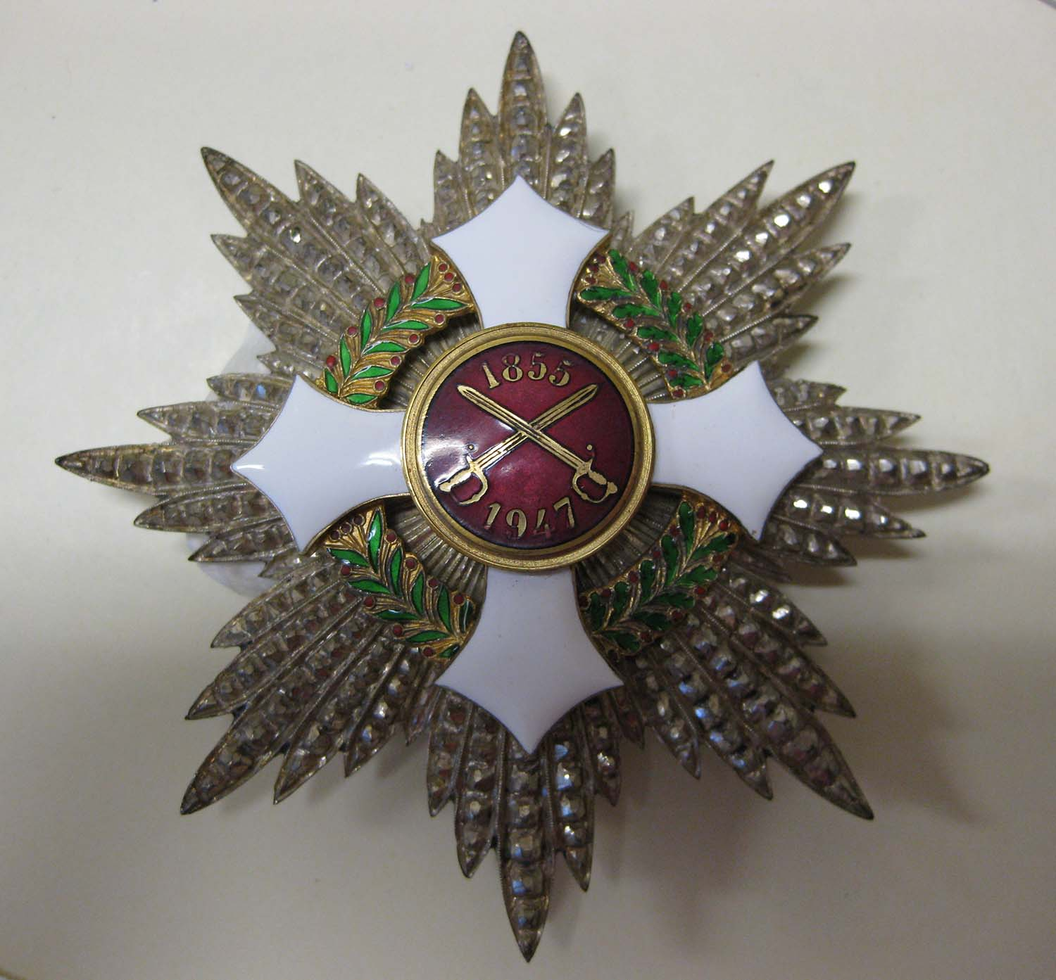 Accession: 66-50-D Medal, Badge, Italy, Knight Grand Cross of the Military Order of Italy. Medal awarded to FADM C. Nimitz Collection of Curator Branch, Naval History and Heritage Command.